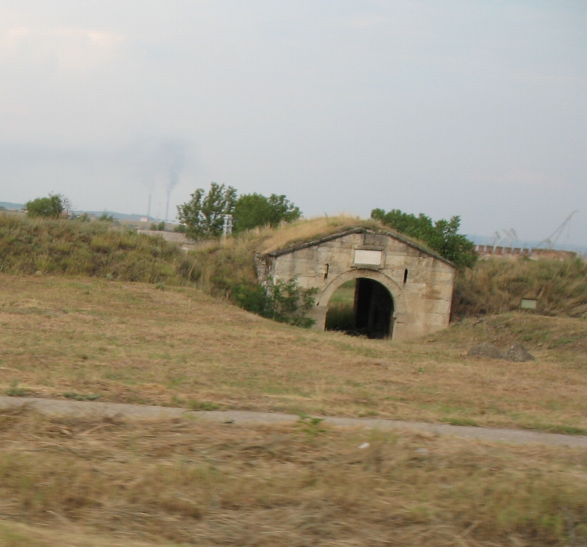 Gate of Kladovo fortress (Kladovski Grad or Fetislam) on Danube near Kladovo, Serbia